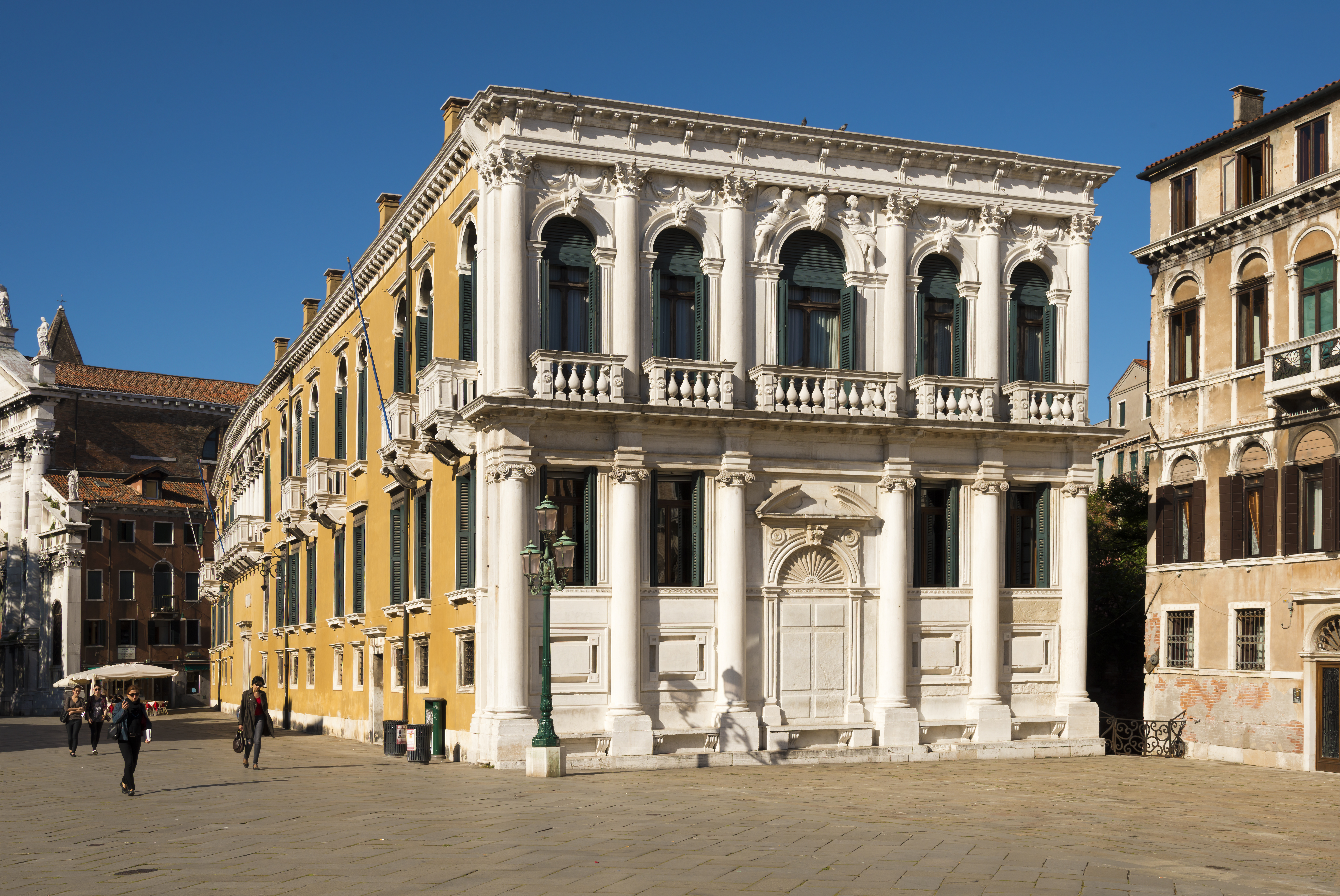 Palazzo Loredan in Campo Santo Stefano in Venice. Venetian Institute of Sciences, Letters and Arts. The manneristic-style facade, given to Giovanni Grapiglia